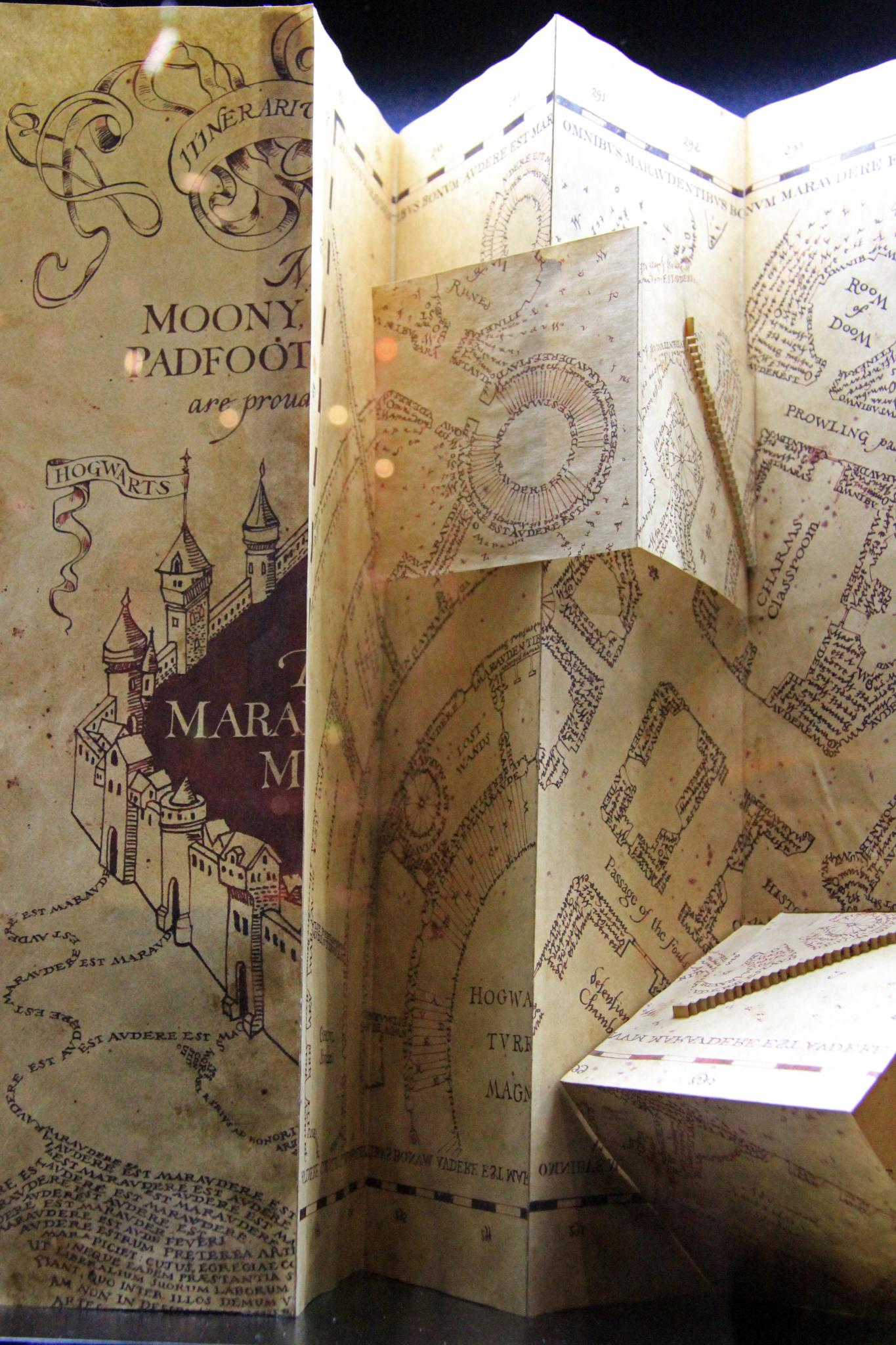 The Marauder's Map Designed by the Graphics Department, using lines made of handwritten text that includes names and hidden messages. After first appearing in Harry Potter and the Prisoner of Azkaban the Marauder's Map was redesigned for each subsequent film with new layers, hallways and calligraphy.